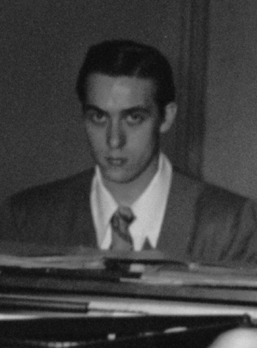 Tony Aless, Carnegie Hall(?), New York, N.Y.(?), ca. Apr. 1946